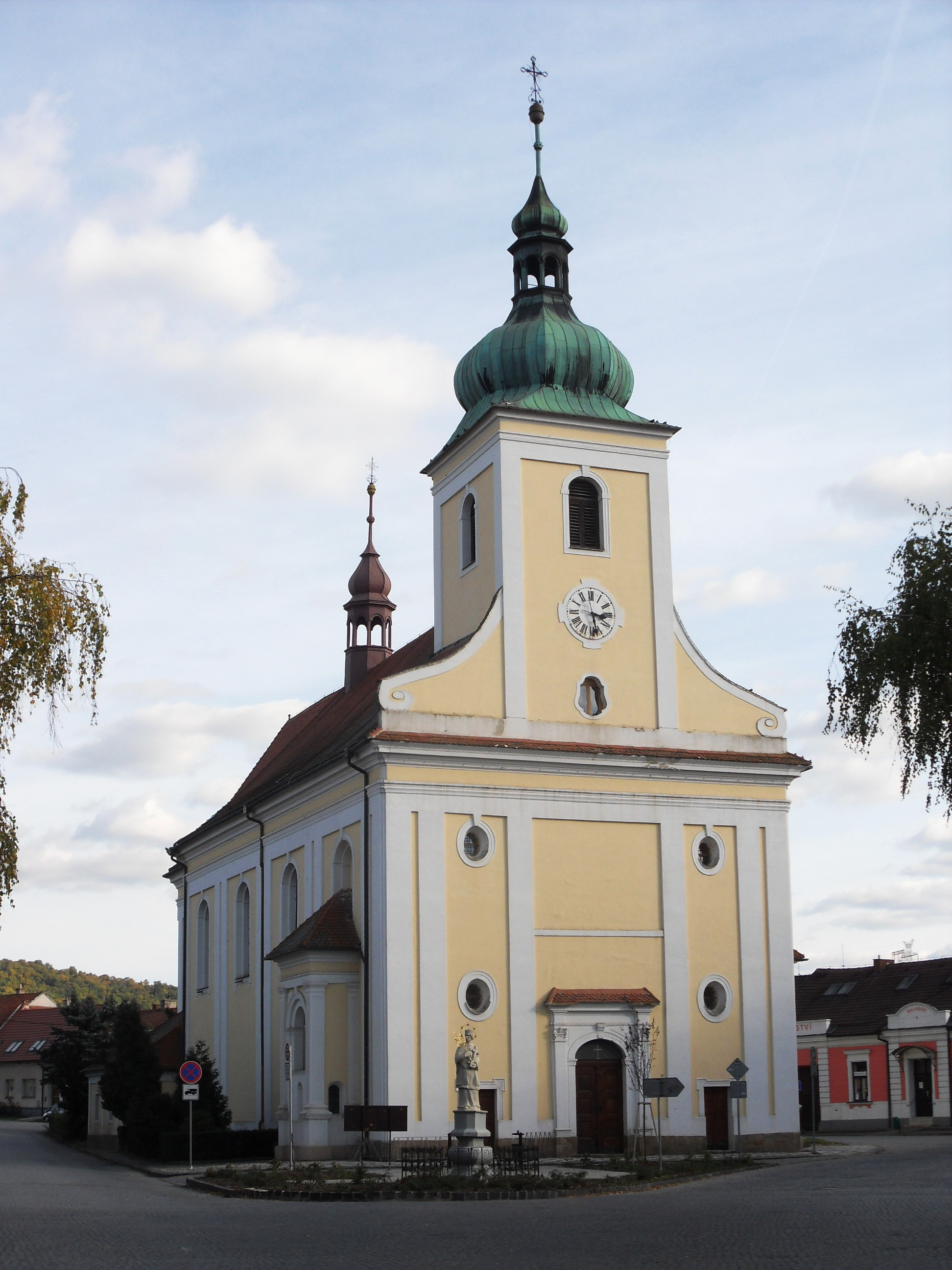 Saint James the Grater church, Veverská Bítýška, Brno-Country district, Czech Republic